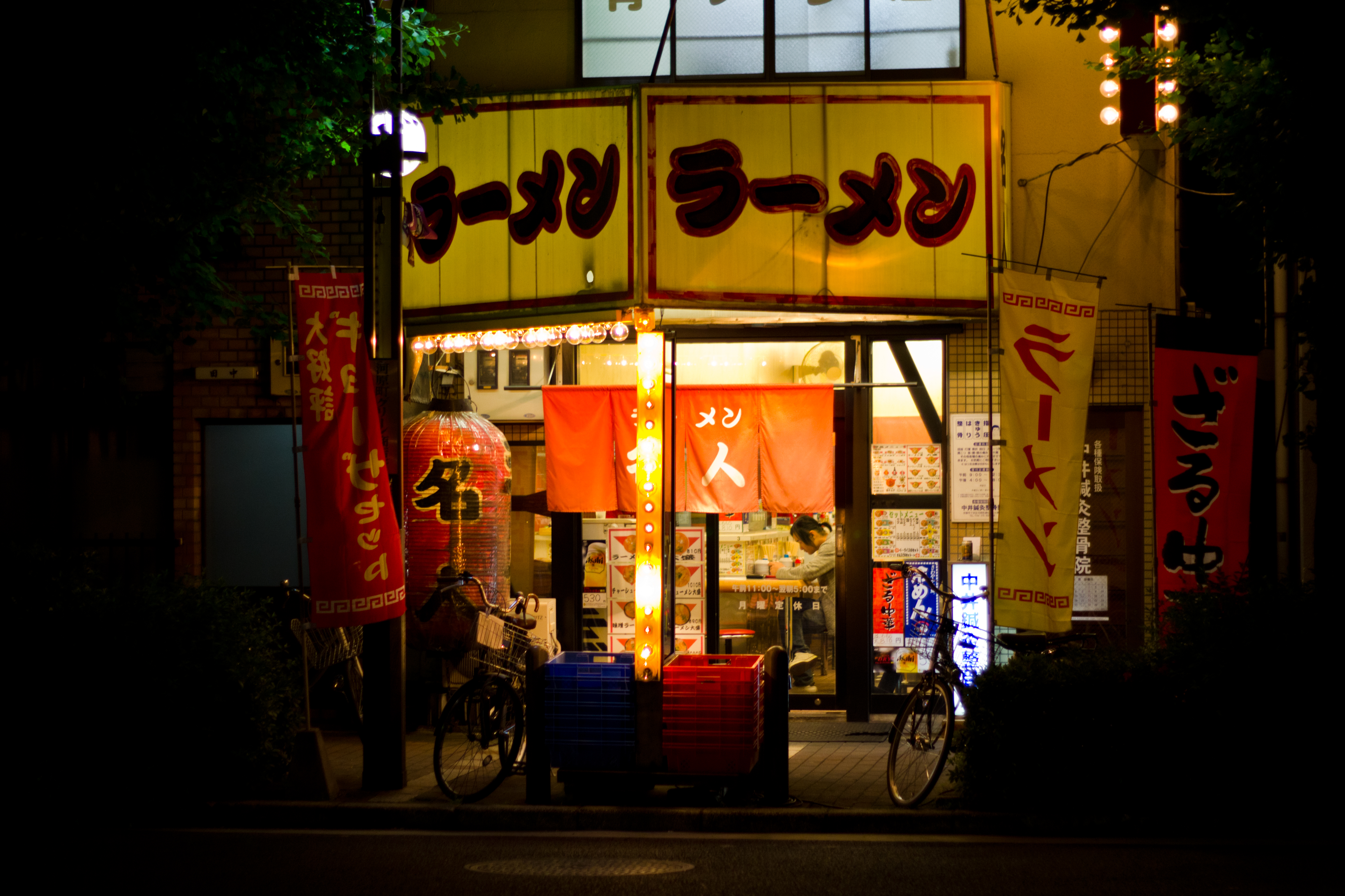 A ramen place in Kyoto